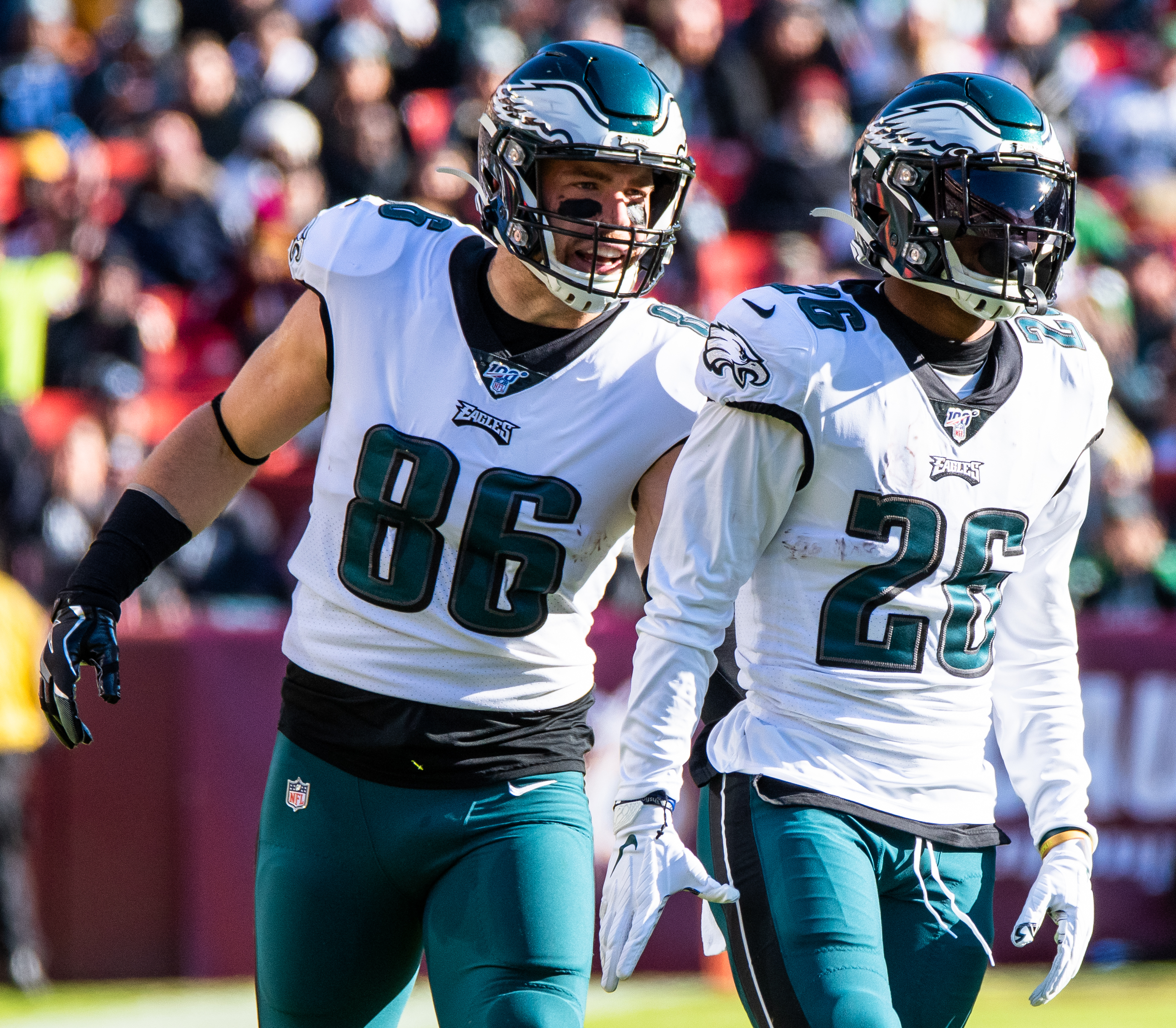 In 2019